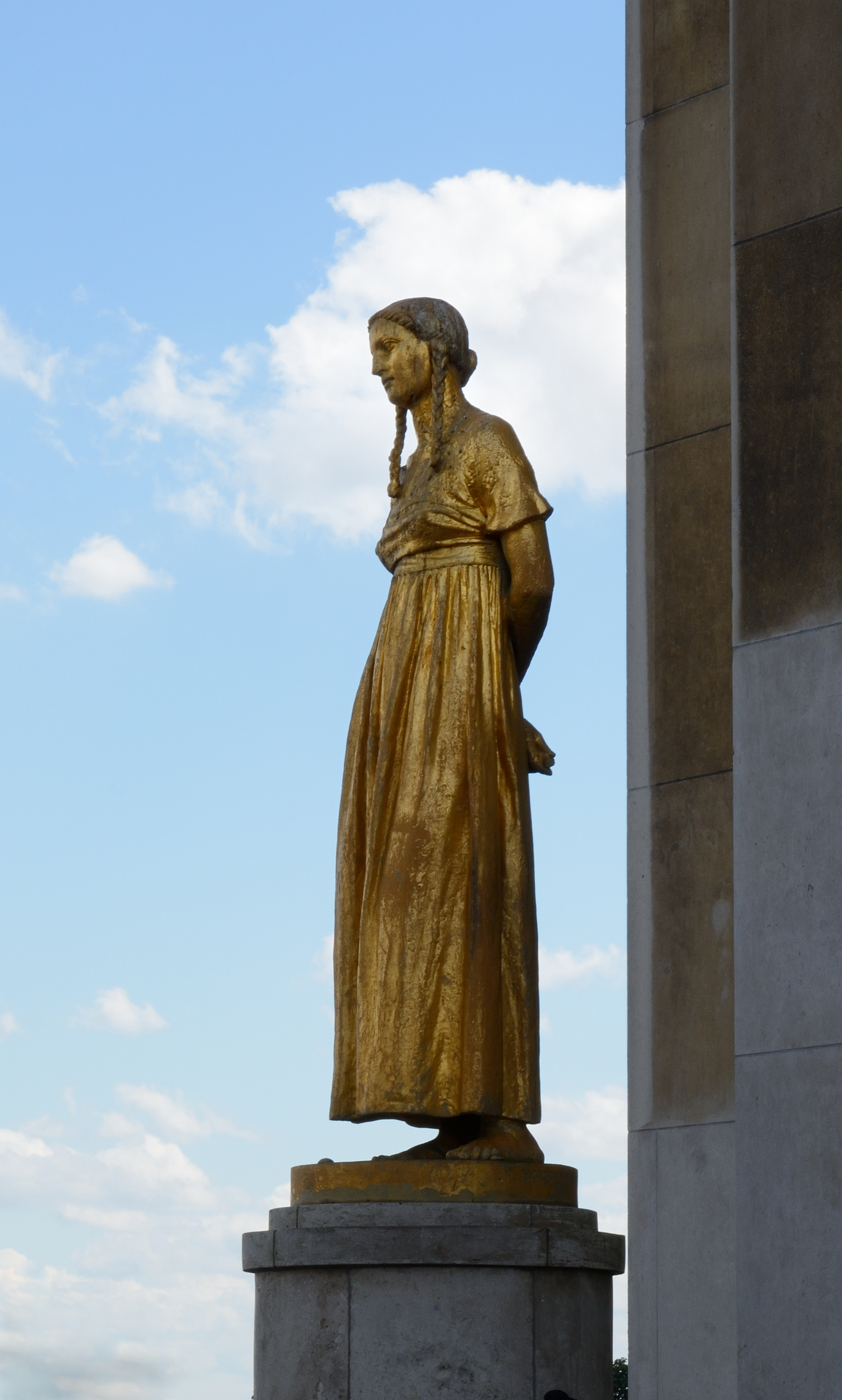 Palais de Chaillot statue on the Esplanade of the Trocadéro (Parvis des droits de l'homme): Les Fruits by Félix-Alexandre Desruelles .